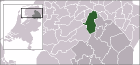 Location map of Dutch municipality in Drenthe. All images of this type by Mtcv have been released in the Public Domain by him